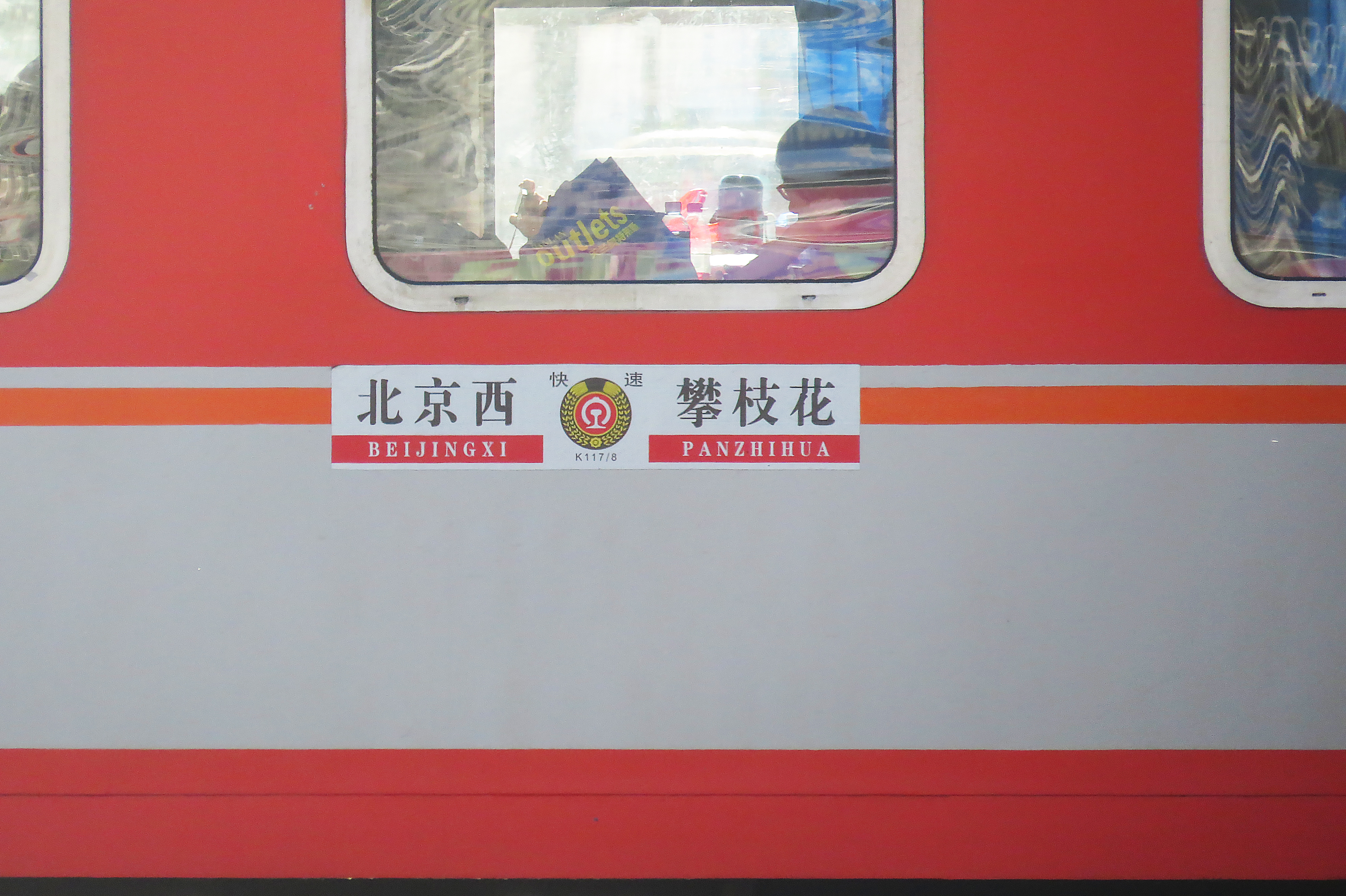 Leaving for Panzhihua, a city in southern Sichuan. This is the only train from Beijing to stations on Chengdu-Kunming Railway (Sichuan section). By the way, Panzhihua means Bombax ceiba, also known as kapok. This flower is the symbol of Guangzhou, and the Guangzhou-based China Southern Airlines as well!